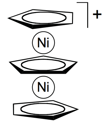 Structure of the [Ni2(η5-C5H5)3]+ triple decker sandwich complex